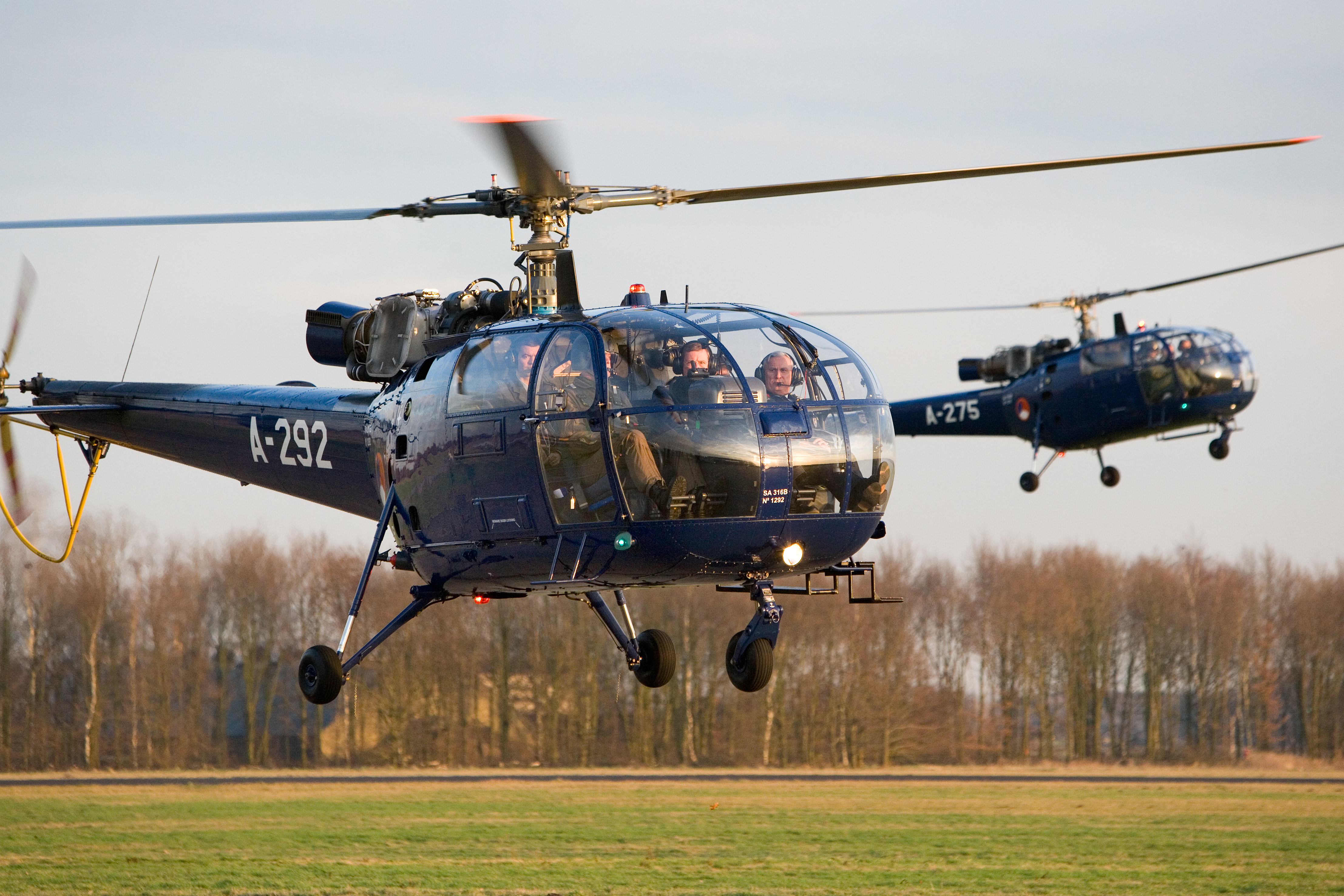 Two Alouette III's of the Royal Netherlands Air Force